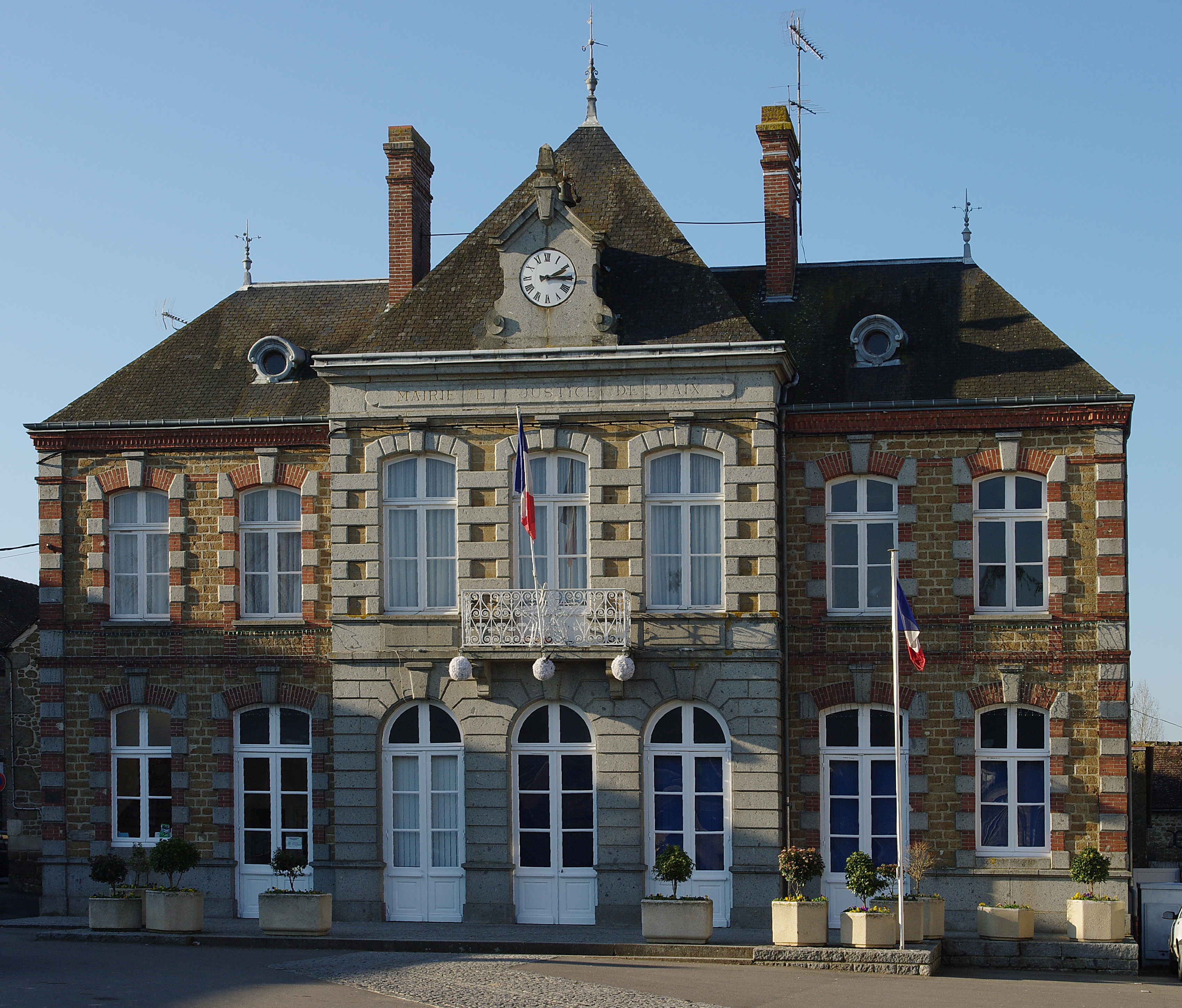 The Town hall of Putanges-Pont-Écrepin.